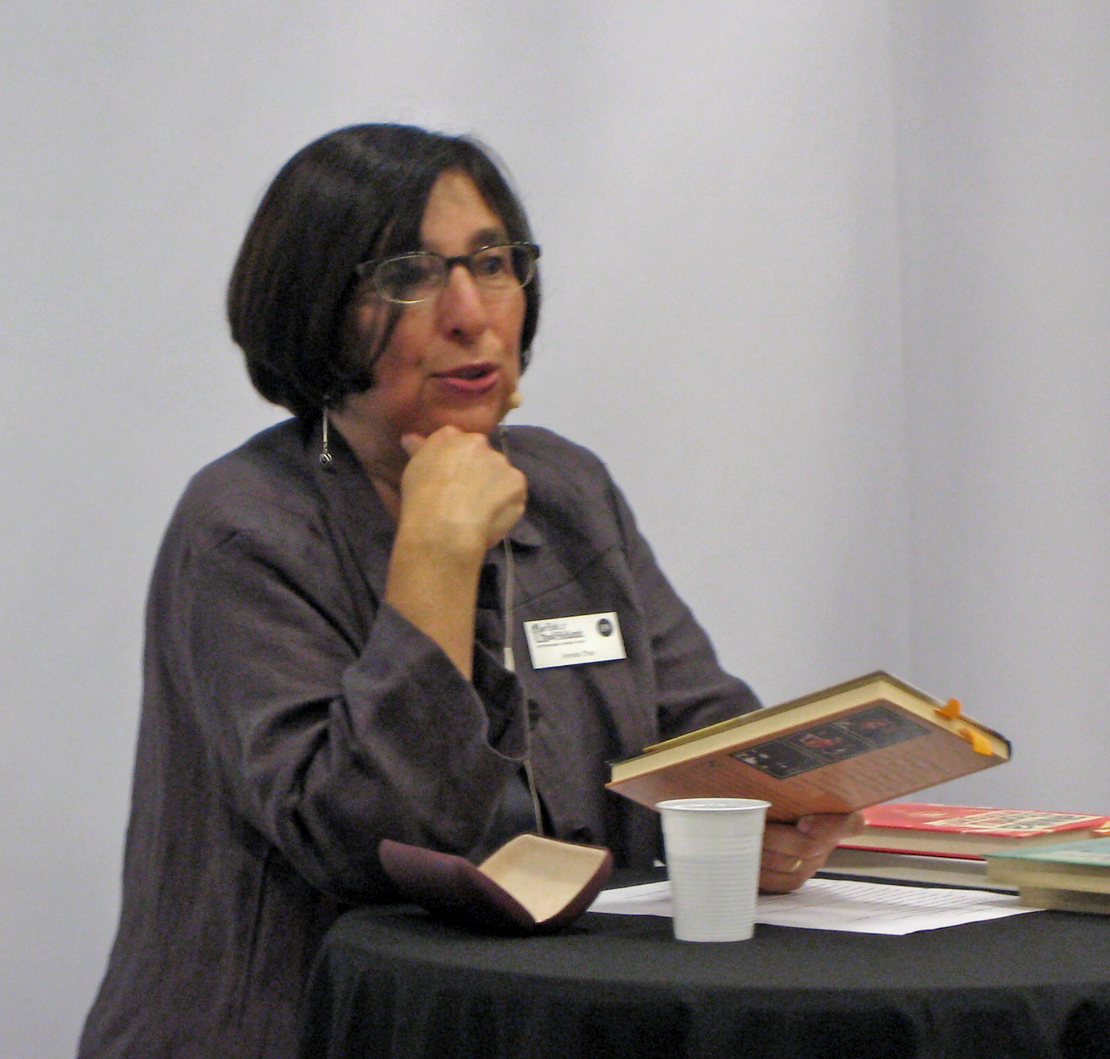 Swedish writer Annika Thor